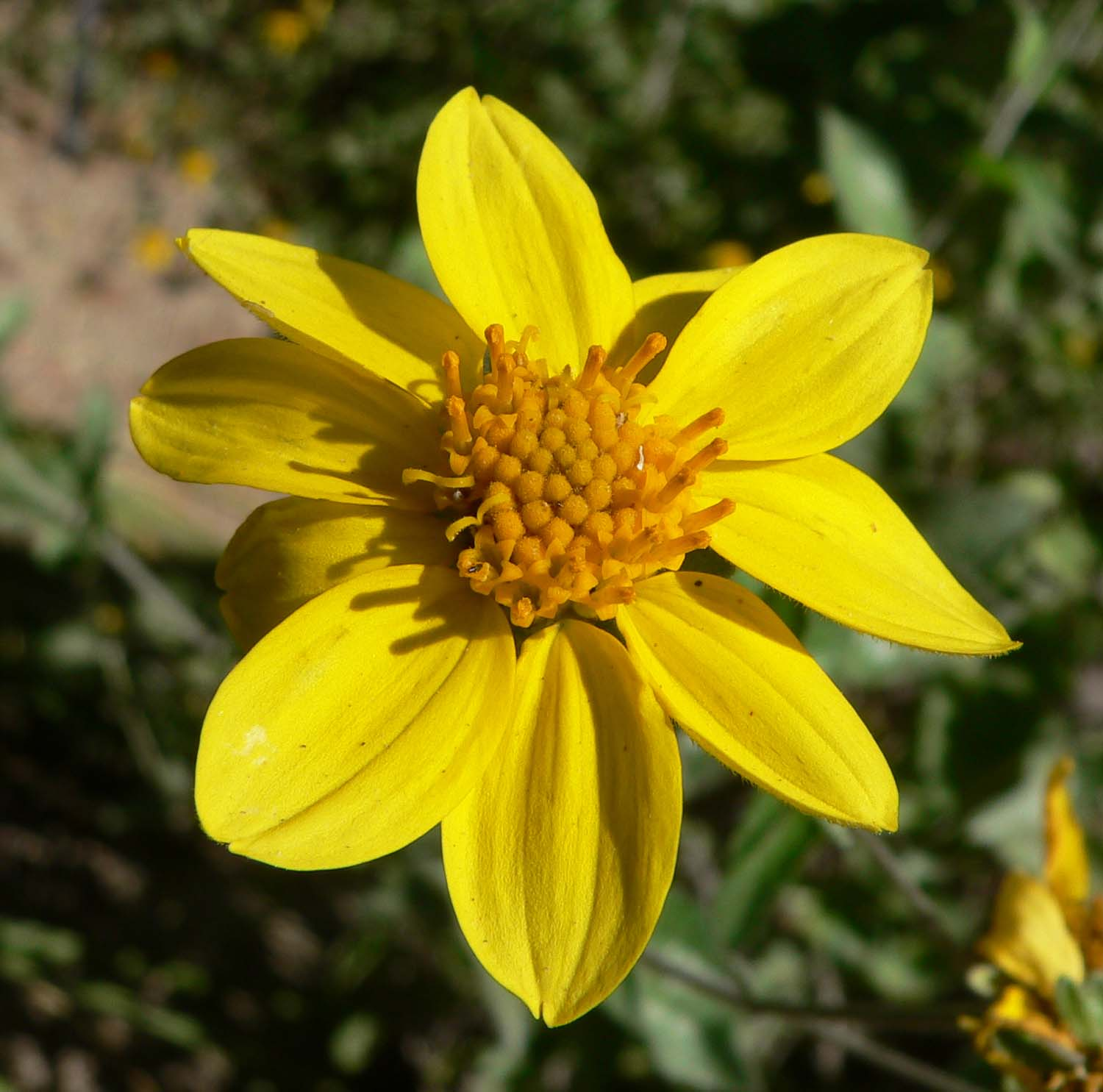 Photo of Vigueria deltoidea at the Springs Preserve garden in Las Vegas, Nevada